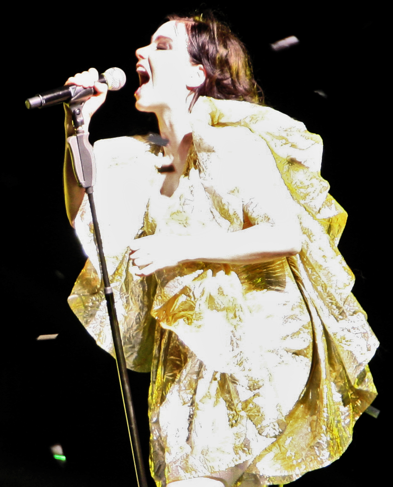 Björk at Festival Rock en Seine, Paris, France.This is not overexposed.